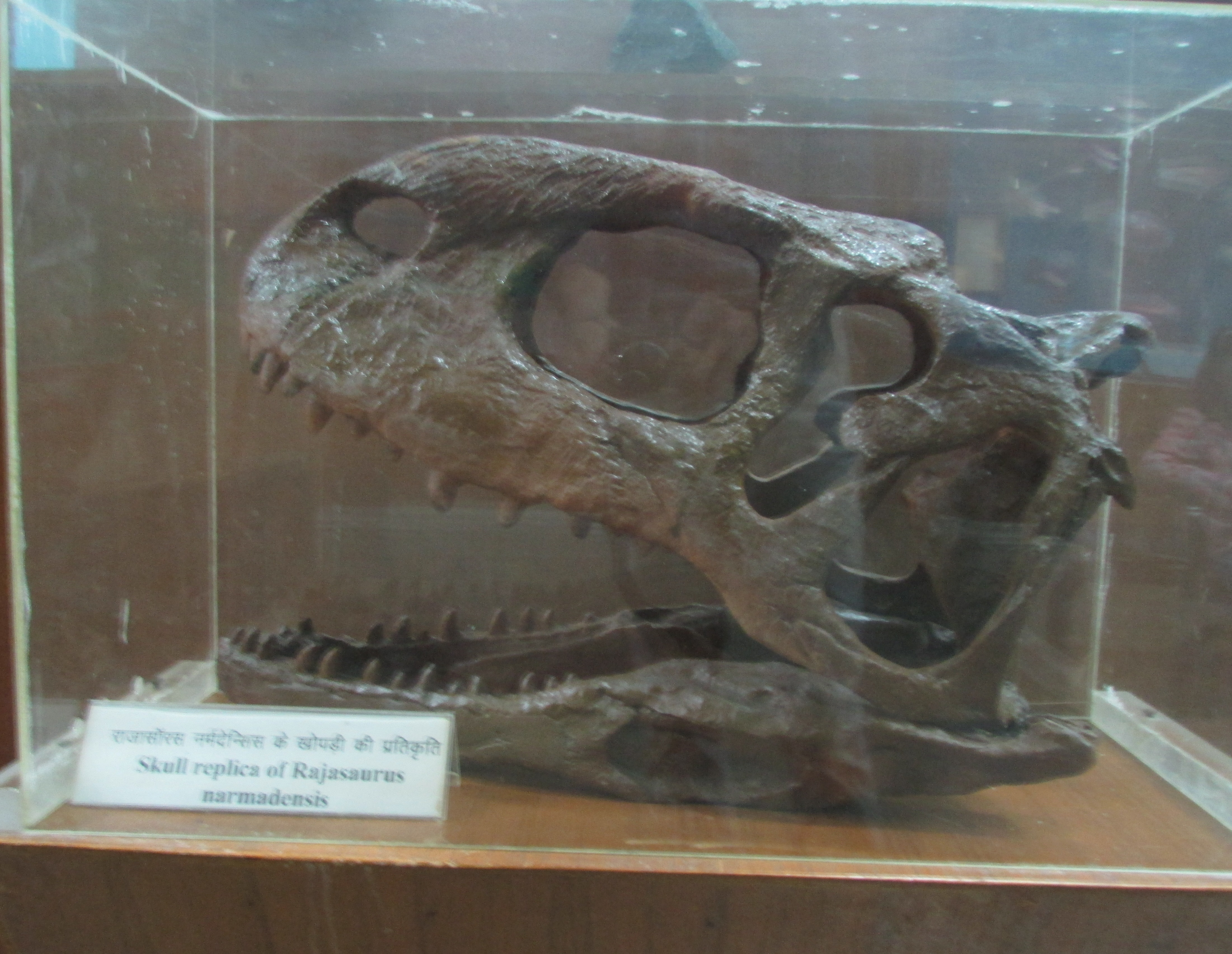 Exhibit of Rajasaurus Narmadensis at Regional Museum of Natural History,Bhopal,India